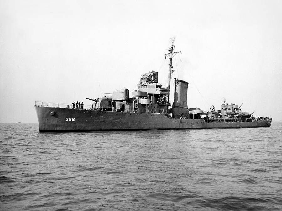 The U.S. Navy destroyer USS Craven (DD-382) underway in San Francisco Bay, California (USA), on 24 November 1943.